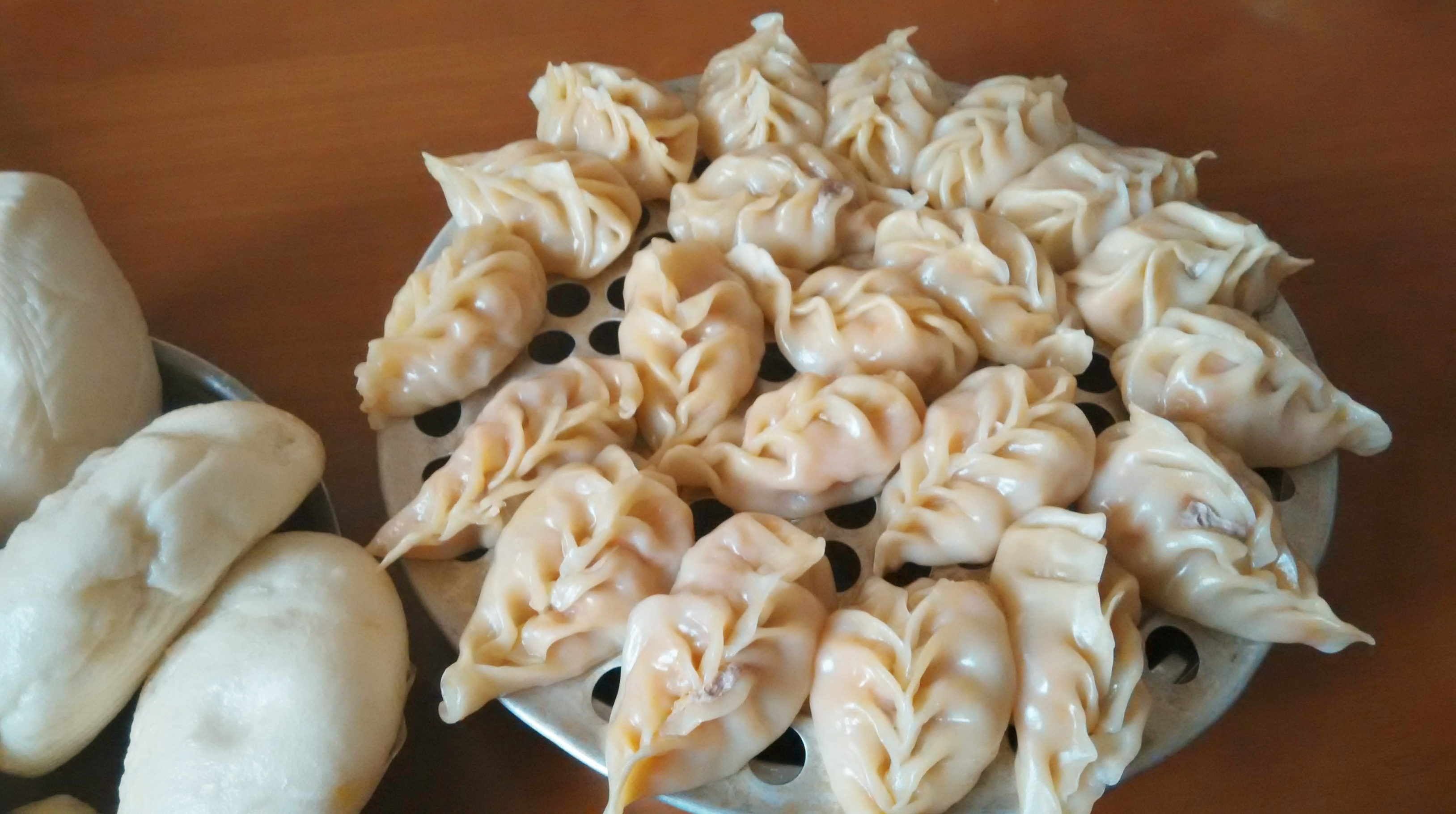 Jiaozi；Dumplings